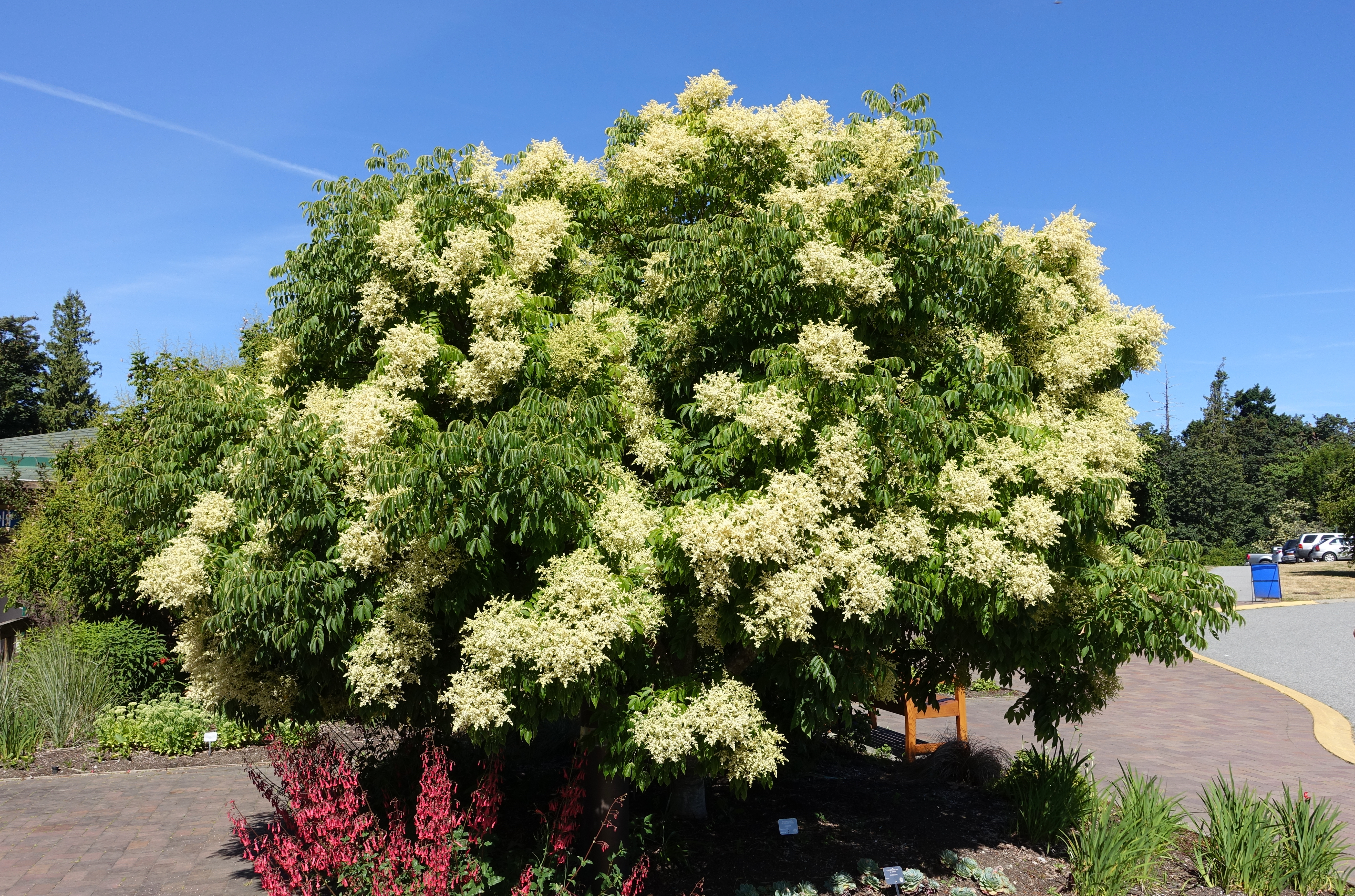 Botanical specimen in the UBC Botanical Garden at the University of British Columbia - Vancouver, British Columbia, Canada.